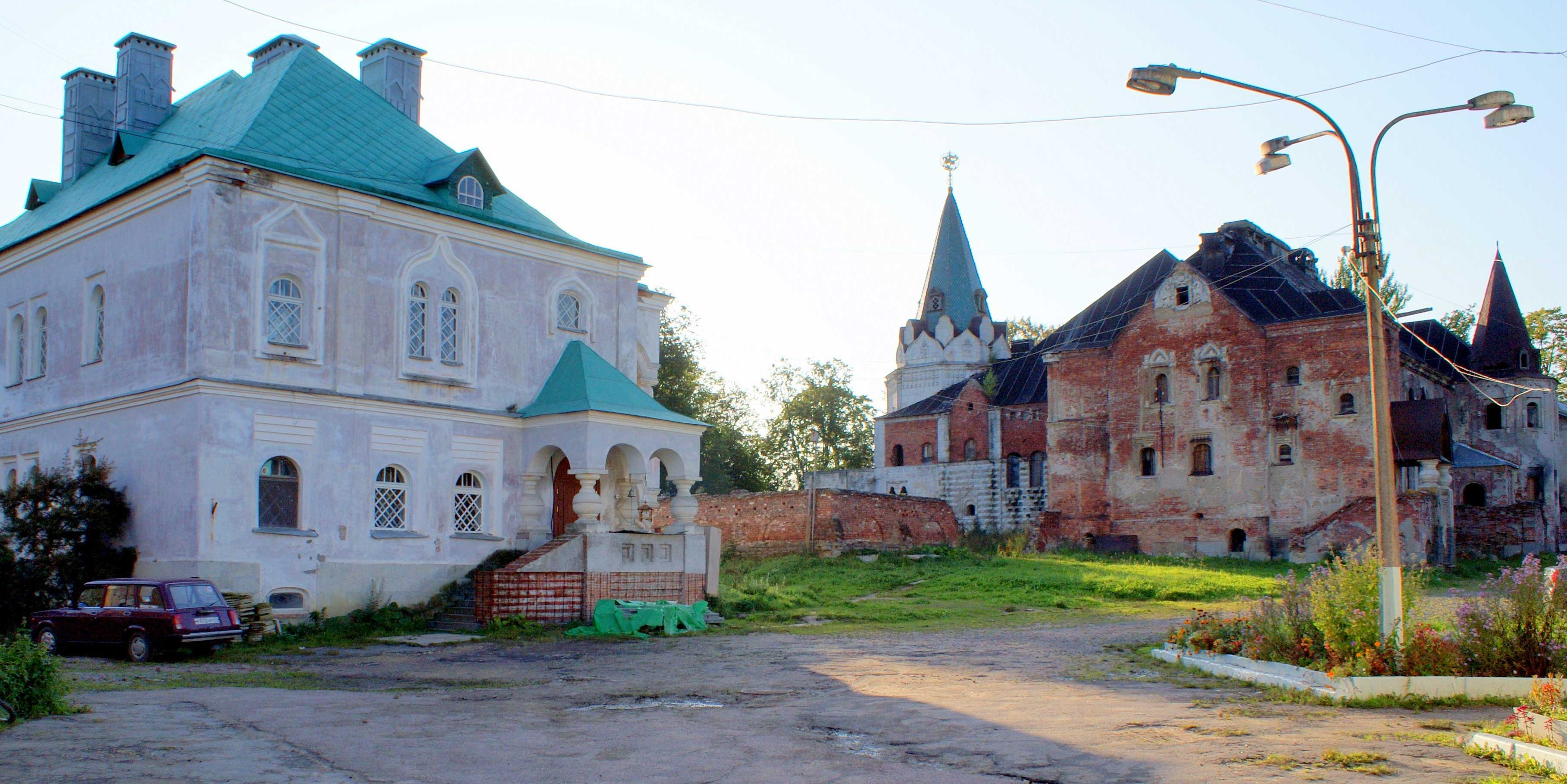 Feodorovsky gorodok in Tsarskoye Selo. The Pink and Refectory chambers. Courtyard view